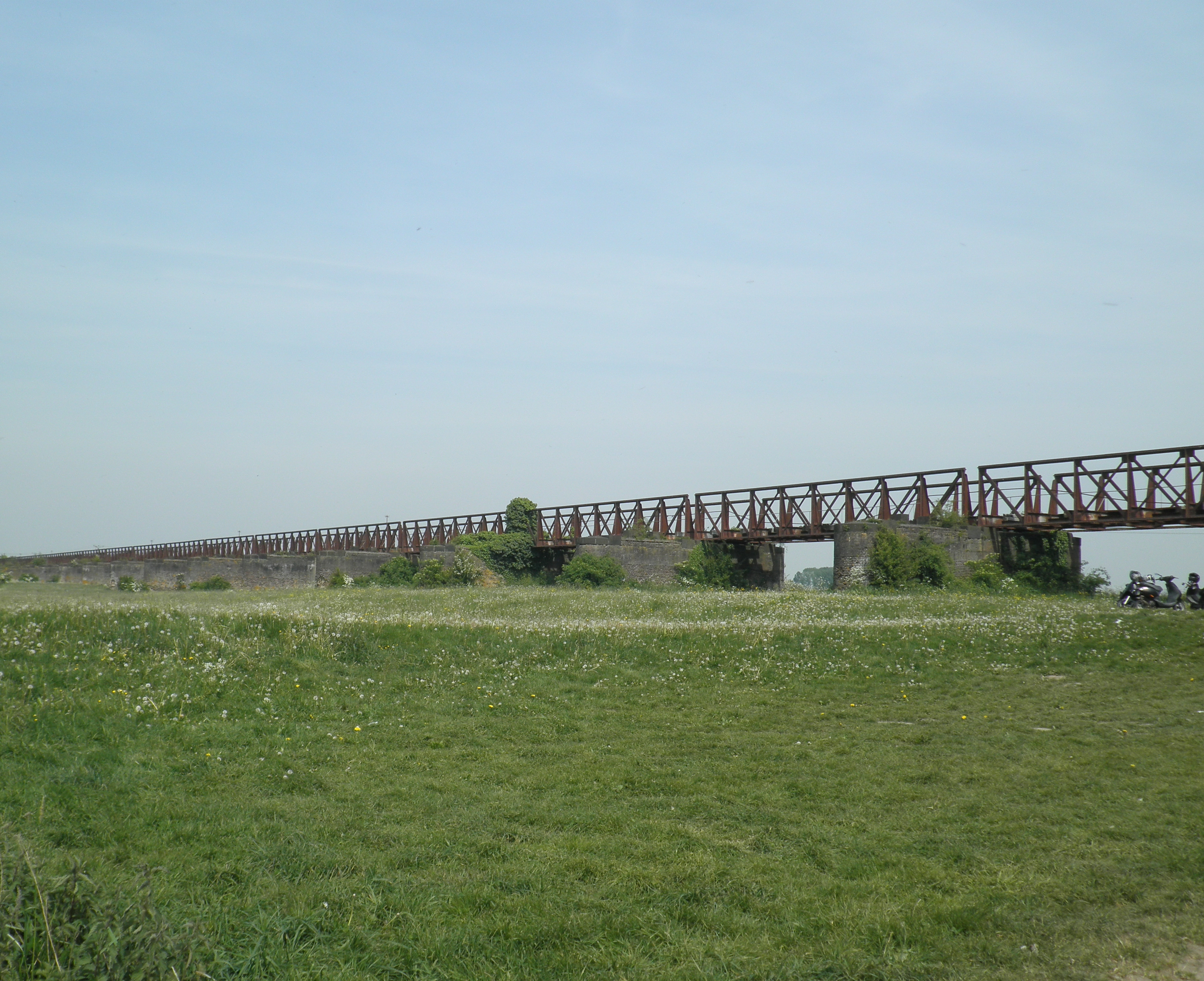 Railway bridge over the (old) Rhine at Kleve-Griethausen, Germany